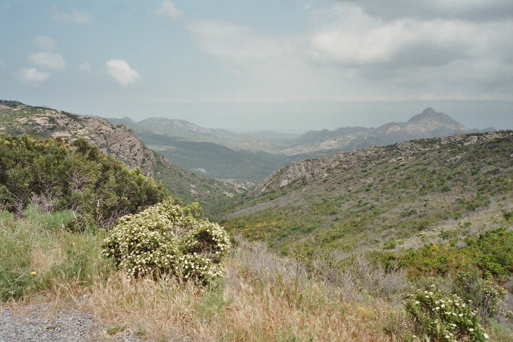 Low Maquis in Corsica. Typical landscape of the Mediterranean maquis. (own image)